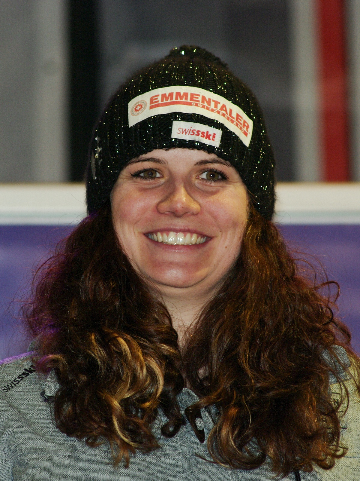 Swiss alpine skier Nadja Kamer at the bib draw for the Downhill in Altenmarkt-Zauchensee (Austria) on 8 January 2011.